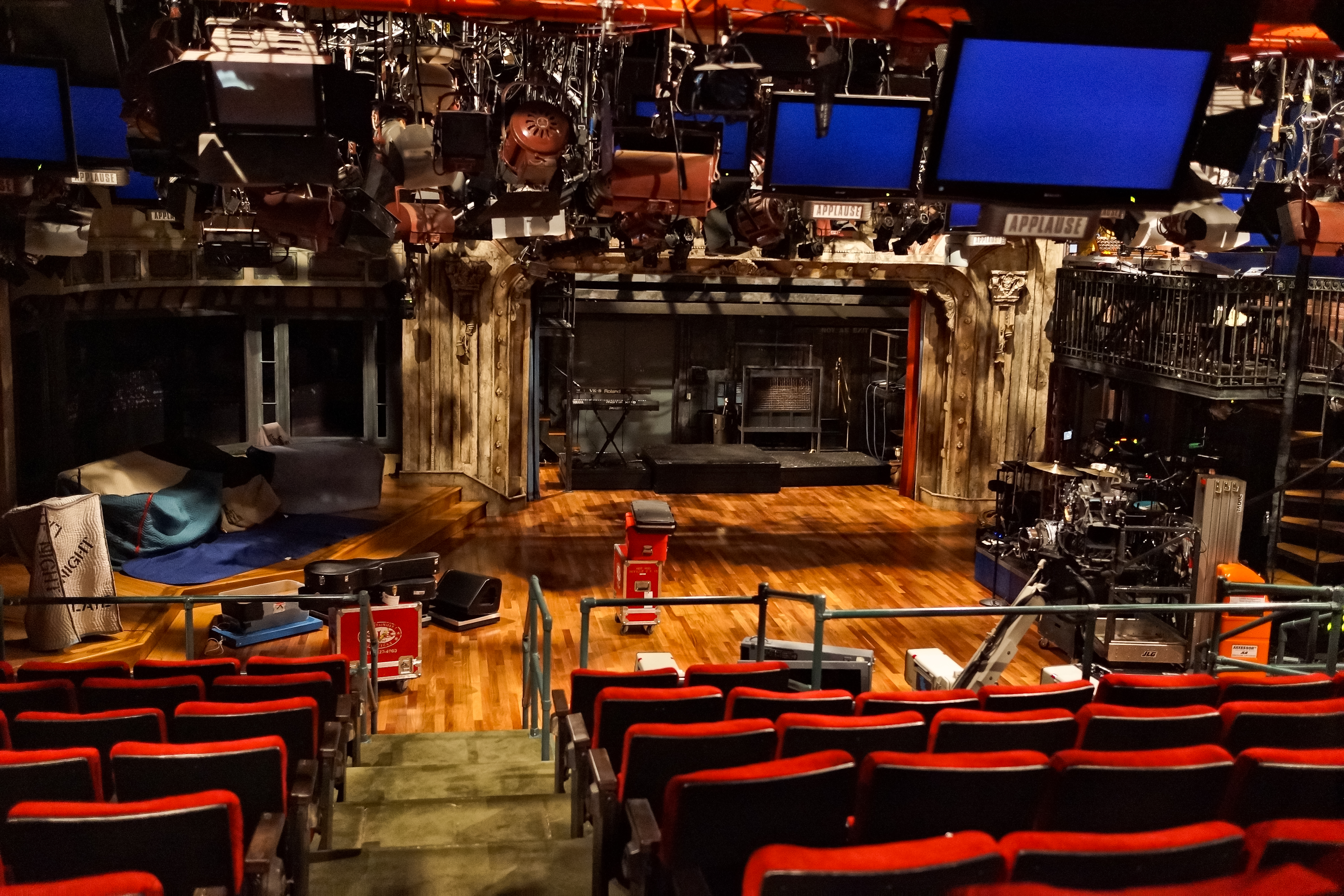 Late Night with Jimmy Fallon studio